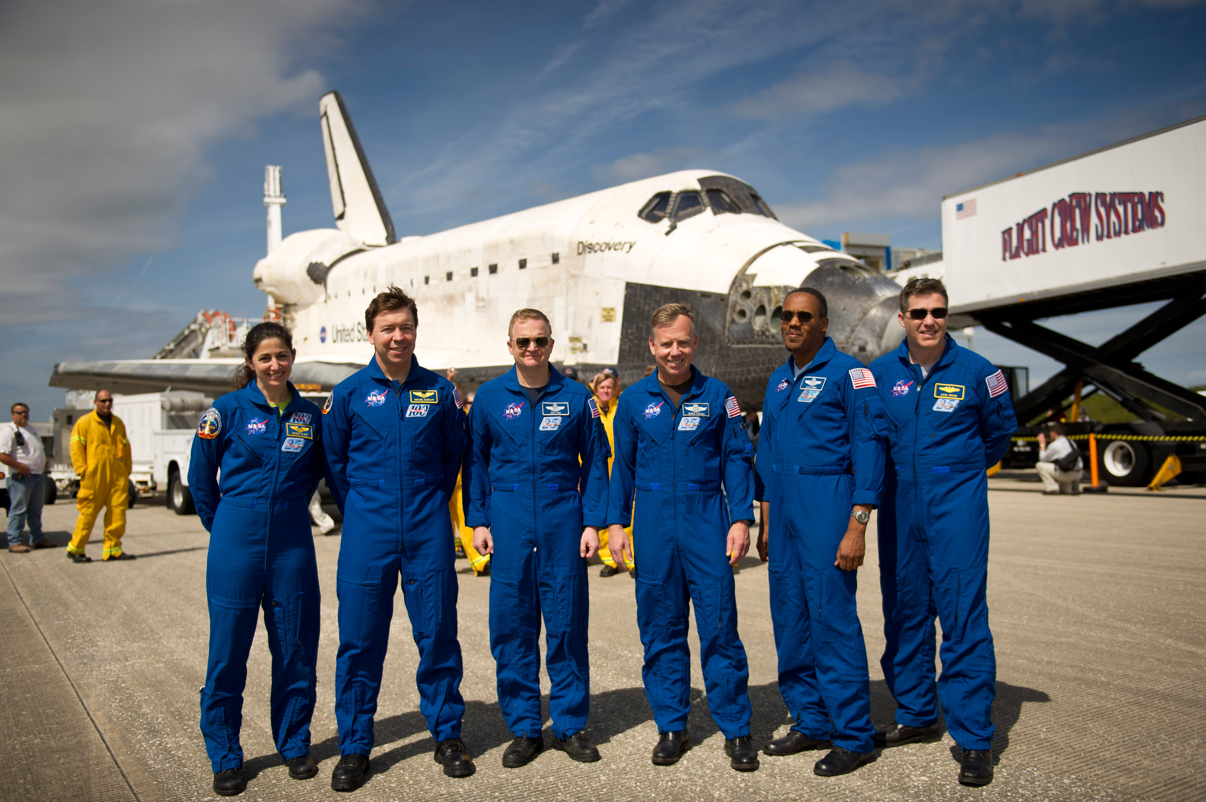 NASA astronauts, from left, Nicole Stott, Michael Barratt, both STS-133 mission specialists; Eric Boe, pilot; Steve Lindsey, commander; and Alvin Drew and Steve Bowen, both mission specialists, pose for a photograph in front of the space shuttle Discovery after they landed, March 9, 2011, at NASA's Kennedy Space Center in Cape Canaveral, Fla., completing Discovery's 39th and final flight. Since 1984, Discovery flew 39 missions, spent 365 days in space, orbited Earth 5,830 times and traveled 148,221,675 miles.